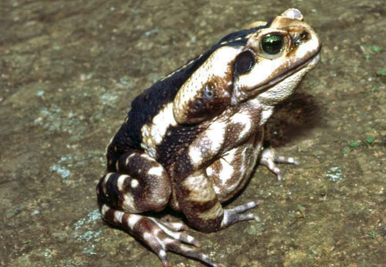 Bufo ictericus